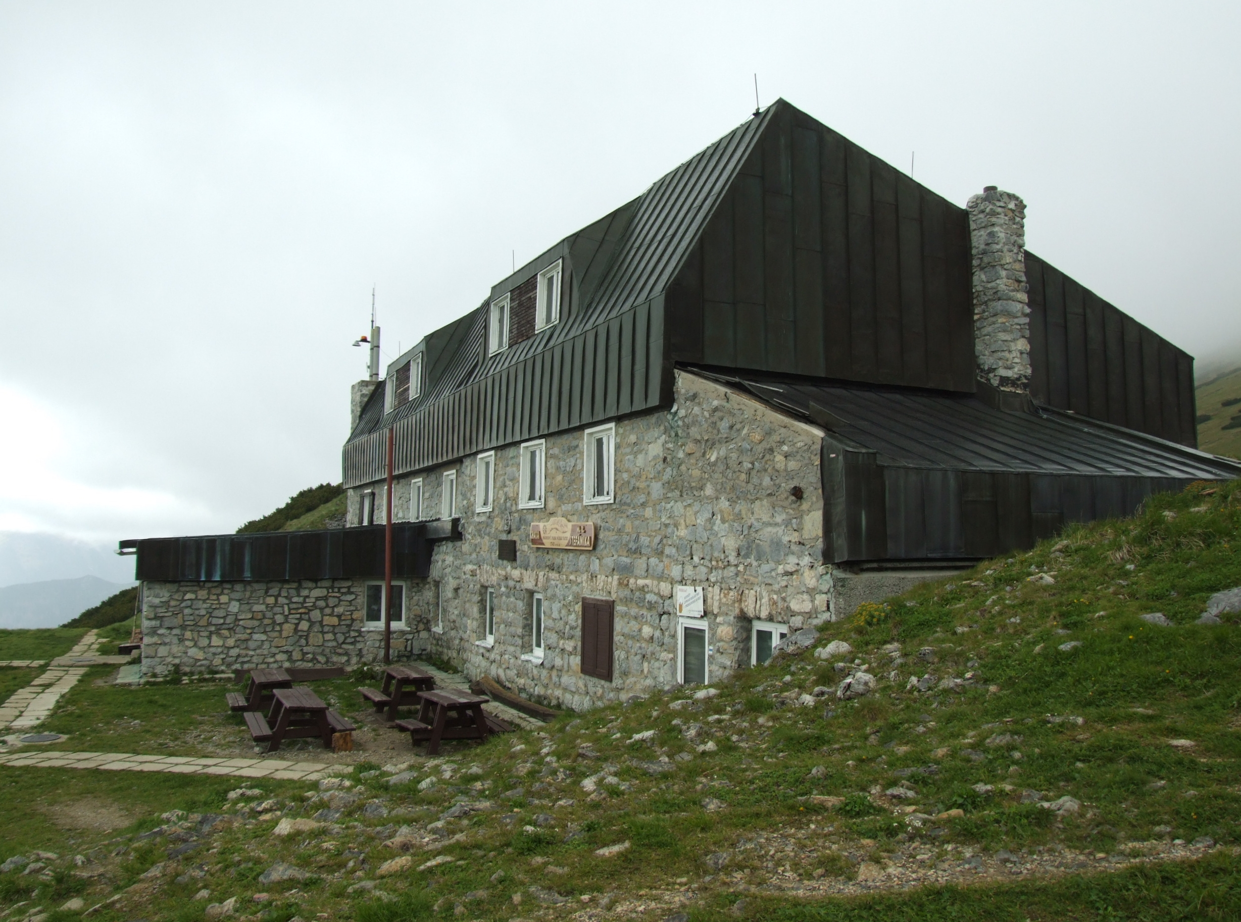 Chata M. R. Štefánika pod Ďumbierom - mountain hostel in Low Tatras, Slovakia